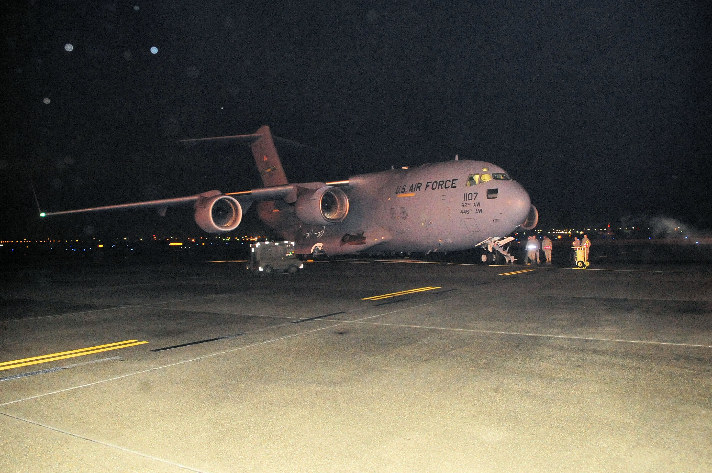 Airmen prepare a C-17 Globemaster III for departure from McChord in support of ongoing humanitarian relief efforts in Haiti. Two additional C-17s were dispatched Sunday to Pope AFB, N.C. and Charleston AFB, S.C., respectively, to pick up critical supplies and deliver them to Haiti; a fourth C-17 departed Jan. 18 for Pope. The Charleston-bound aircraft carried two additional augmented aircrews to be assigned to other C-17s supporting the relief effort from Charleston. All aircraft departed Haiti with evacuees